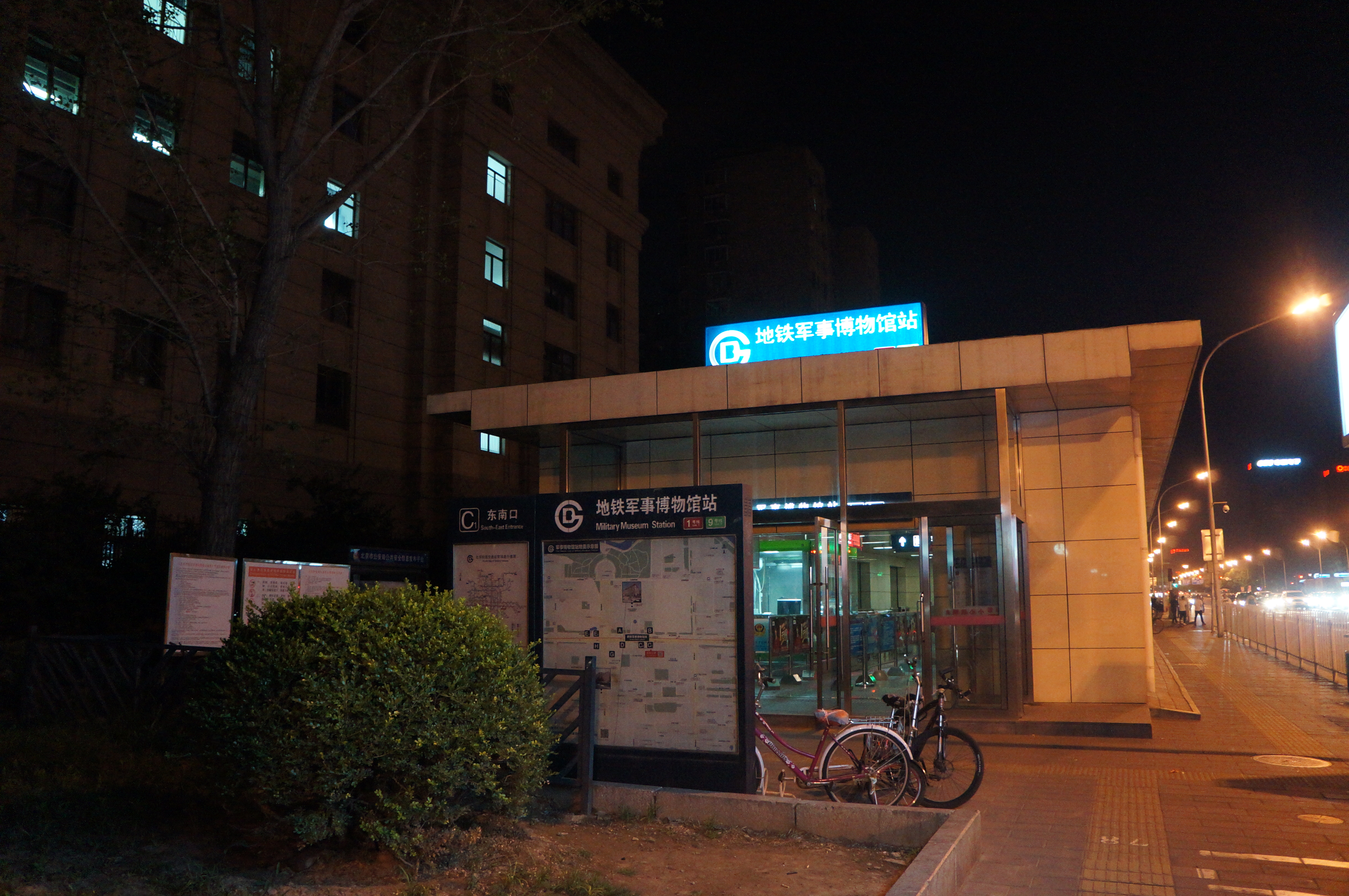 201606 Exit C1 of Military Museum Station, the building on the left is China Railway Corporation (Photography is not allowed near its gate)